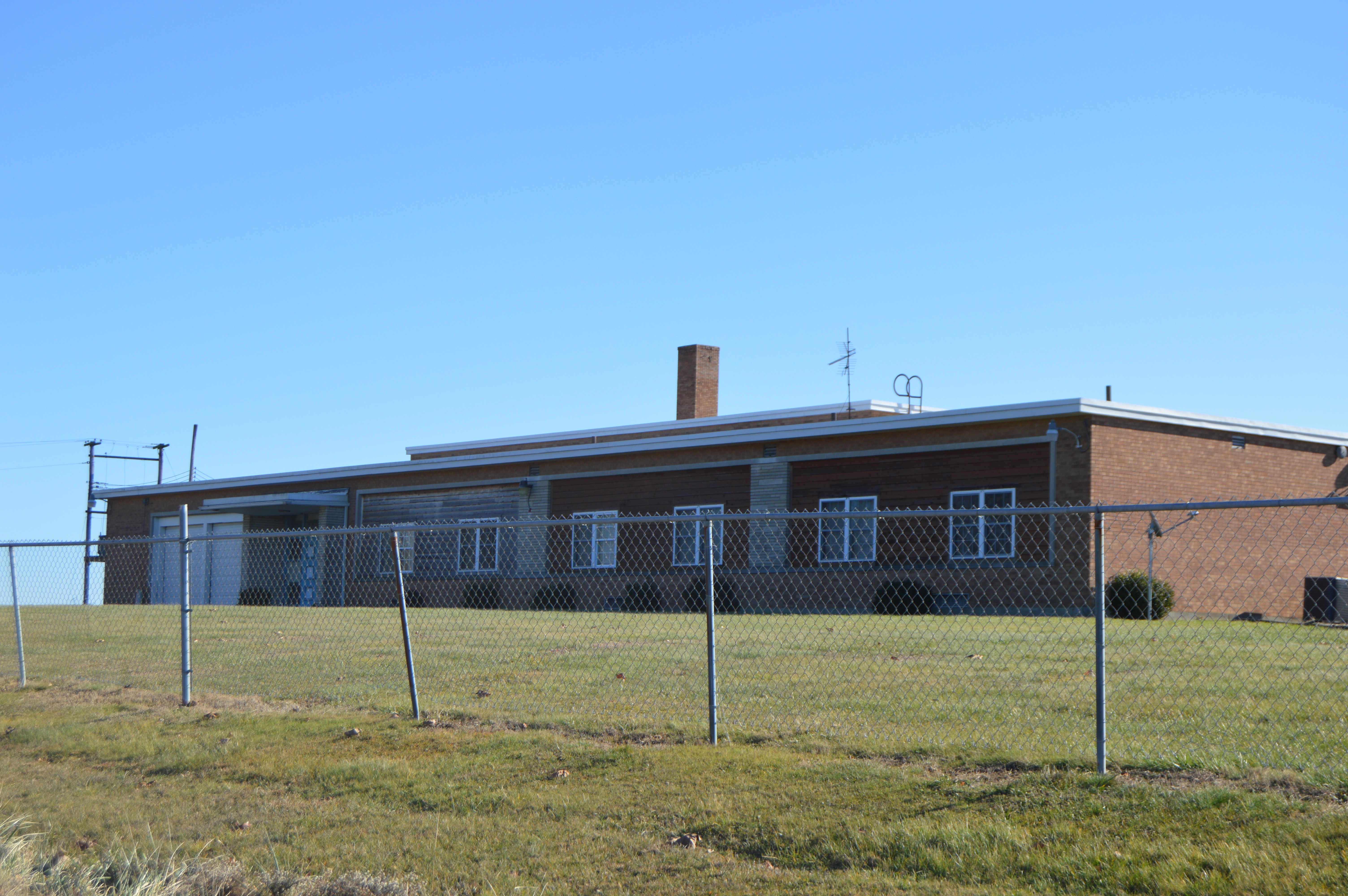 Front of the former Center Township Elementary School, located at 2535 State Route 83 near Hackney in Center Township, Morgan County, Ohio, United States. It was built in 1956.